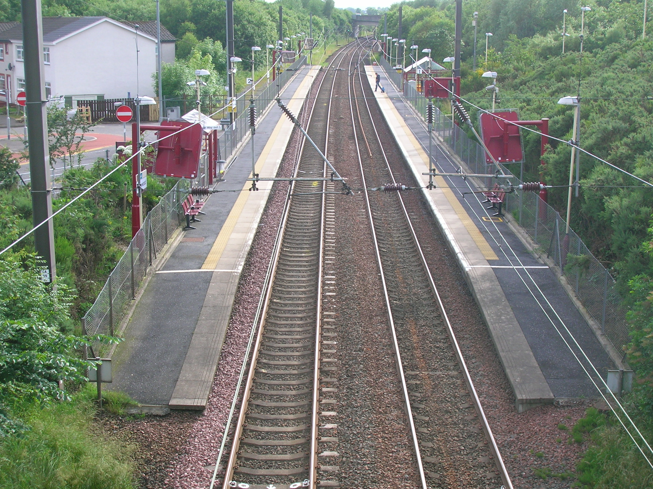 Howwood station, East Renfrewshire, Scotland.